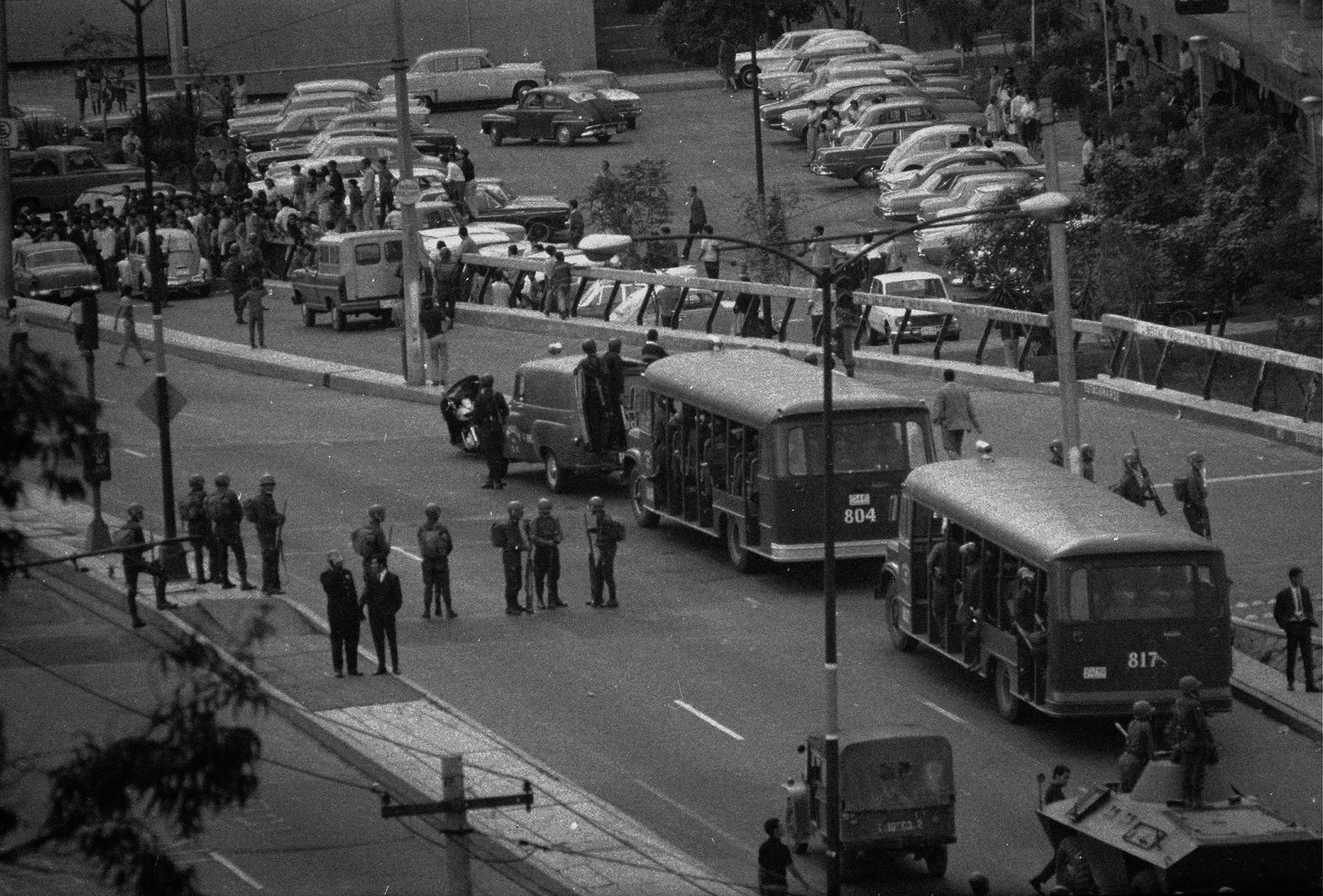 Images of Mexico City Student Movement, October 1968.